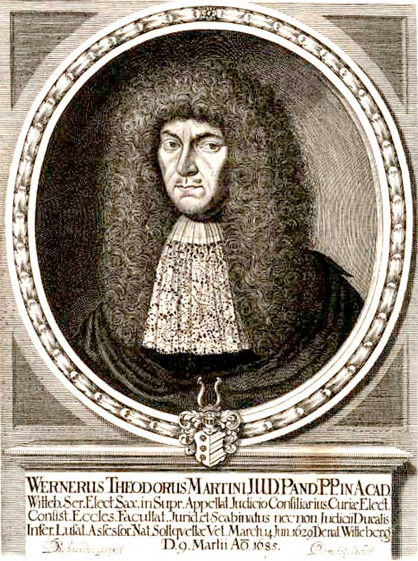 Werner Theodor Martini, (1629-1685) german Jurists